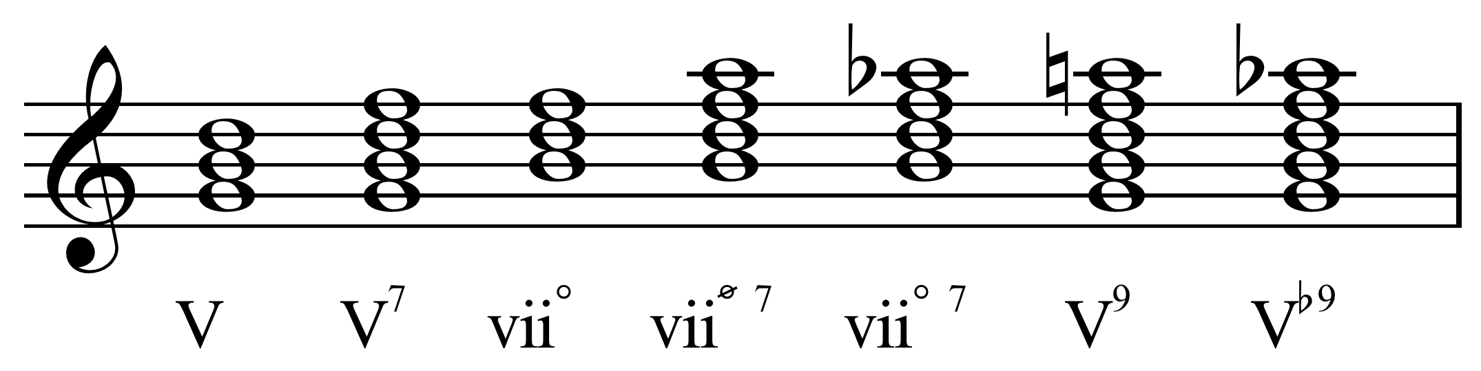 Chords with a primary or secondary dominant function.